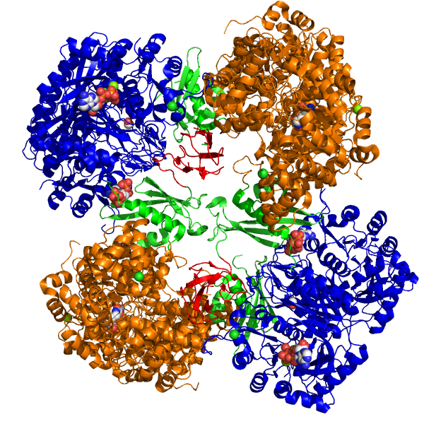 A tetrameric image of pyruvate carboxylase looking down onto the biotin moiety (red) that swings between the biotin carboxylation domain and the carboxyltransferase domain. From pbd file 2QF7